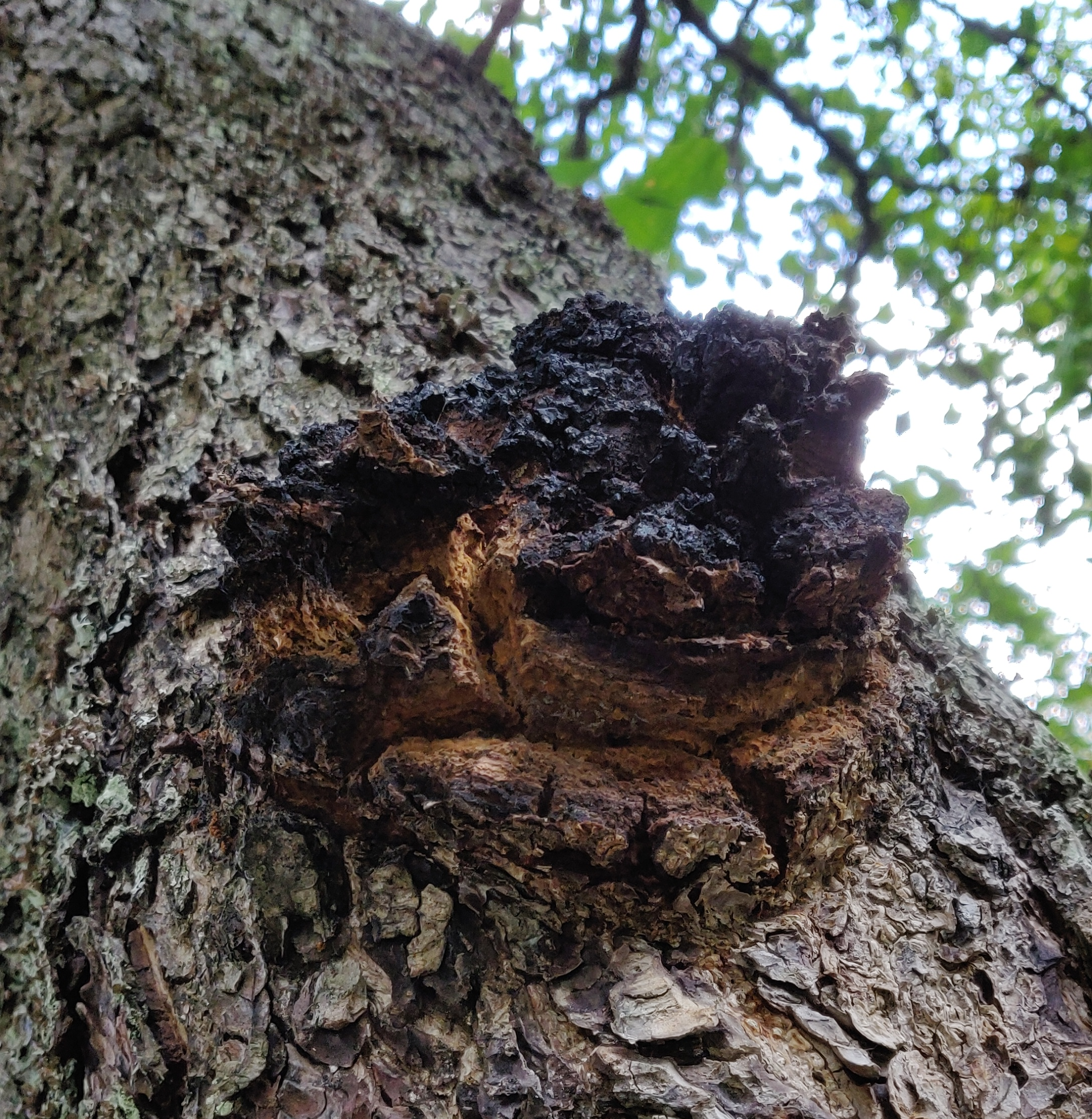 Chaga in alder, in Hämeenlinna, Finland